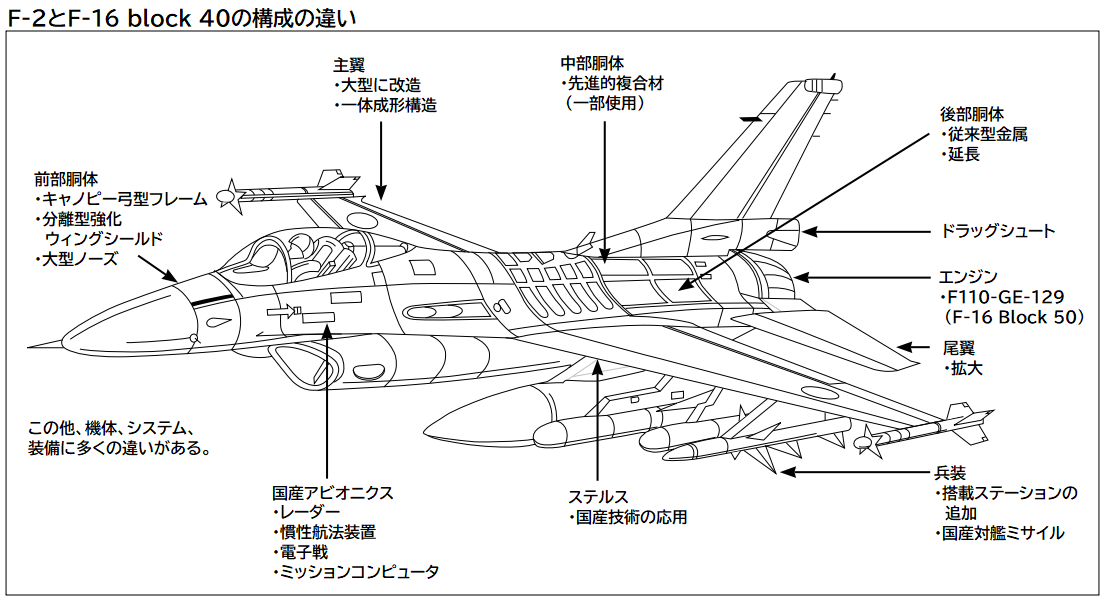 Diffferences between F-2 and F-16 in Japanese